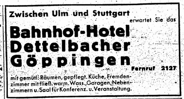 Advertisement published in 1936 in the newspaper of the Jewish community of Germany, concerning the Bahnhof Hotel in Göppingen.